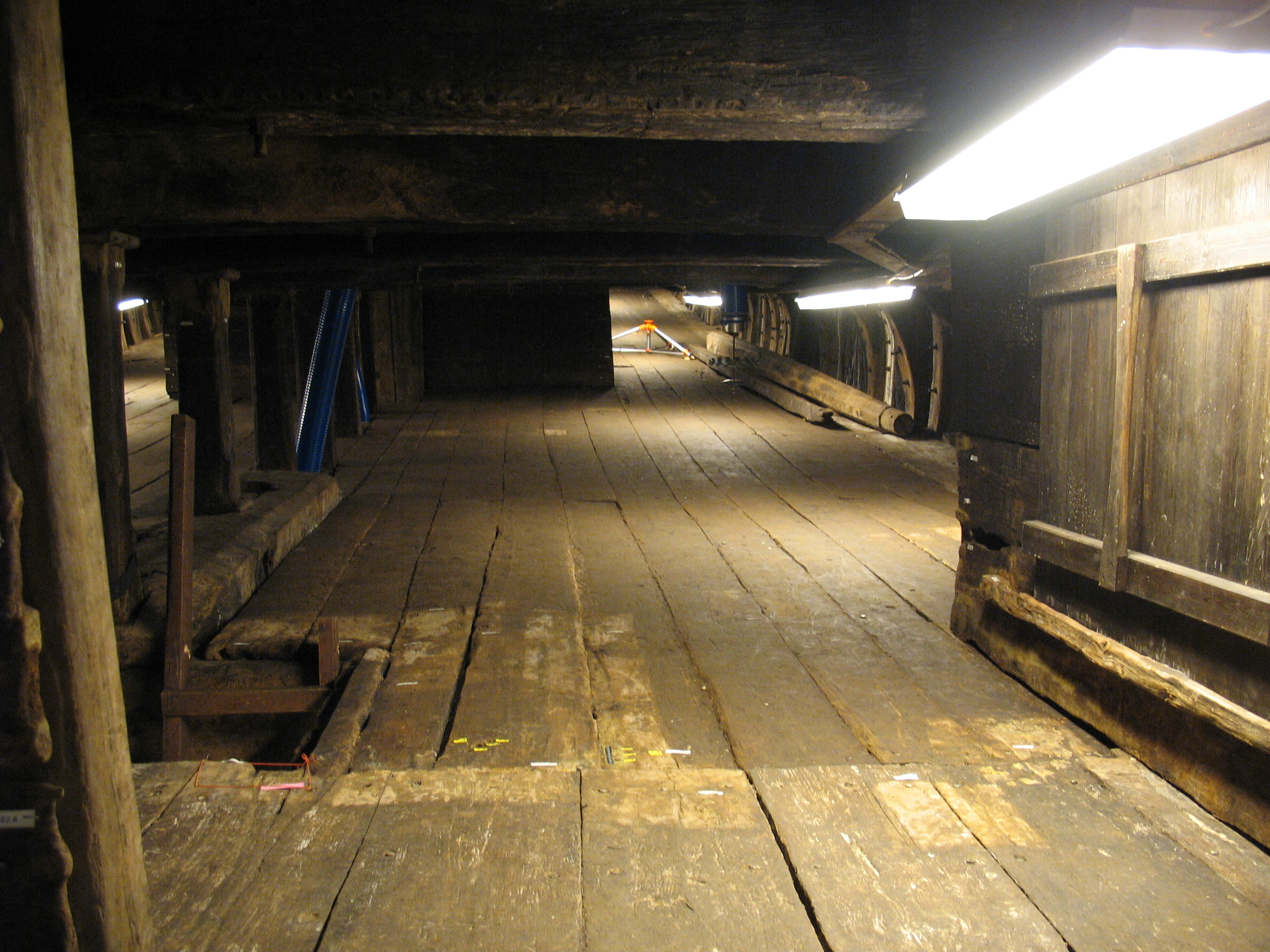 The orlop of the warship Vasa, displayed in the Vasa Museum in Stockholm, Sweden. Picture taken from inside the ship looking forward.